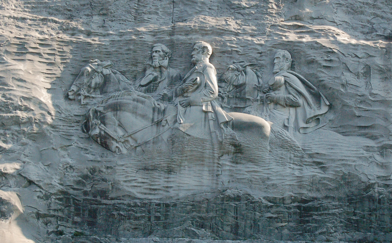 Confederate Memorial Carving at Stone Mountain Park